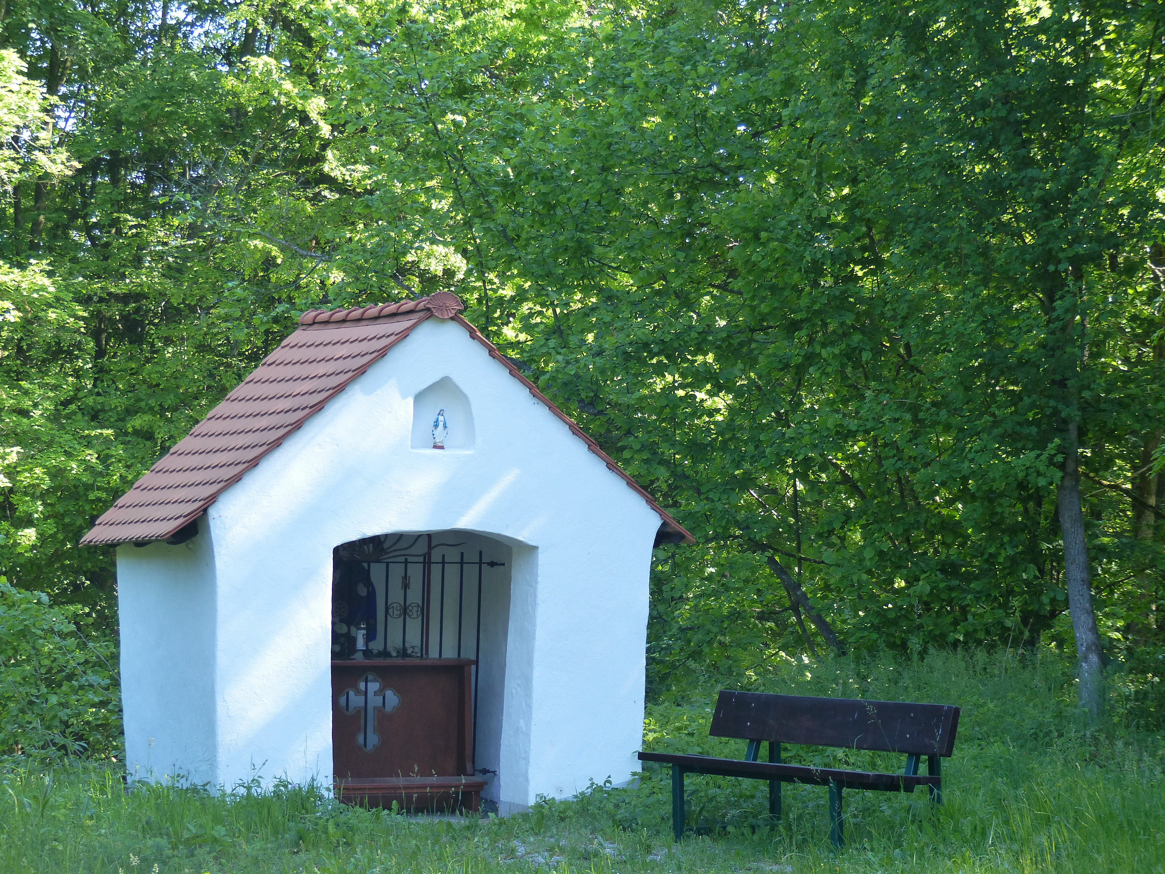 A wayside chapel near the village Moritz, a district of the municipality Gößweinstein.